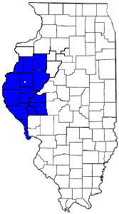 Forgottonia - 1972